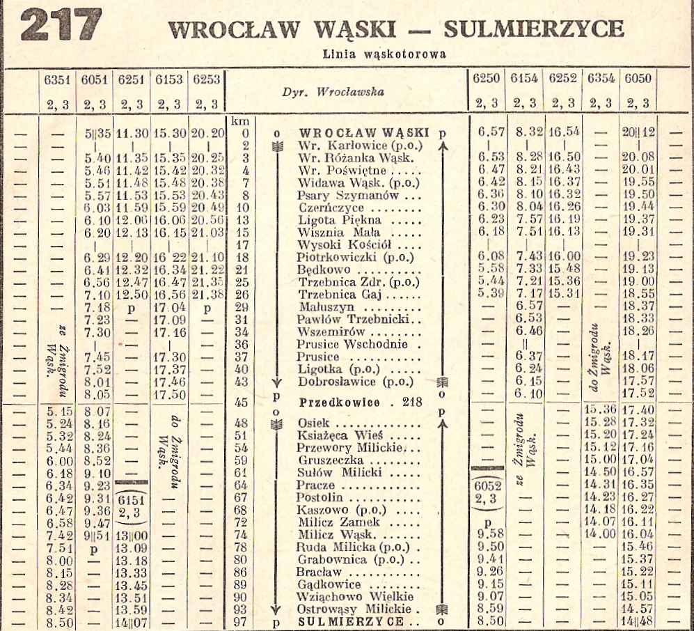 narrow gauge line timetable, 1951/52